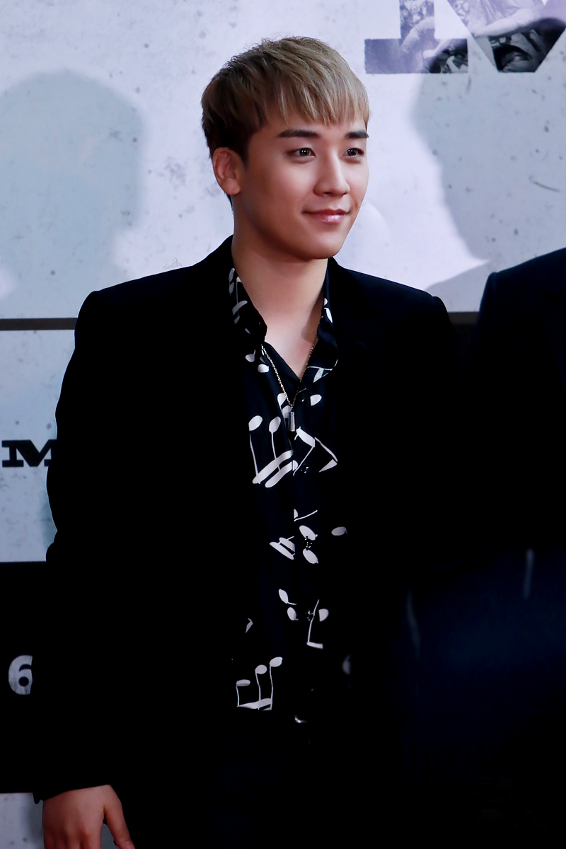 Seungri at BIGBANG MADE Movie Stage Greeting - June 28, 2016